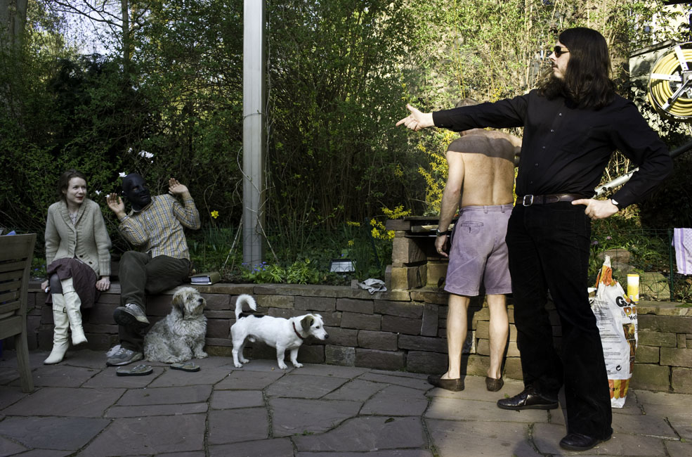 Jonathan Meese porträtiert von Oliver Mark, Berlin 2009